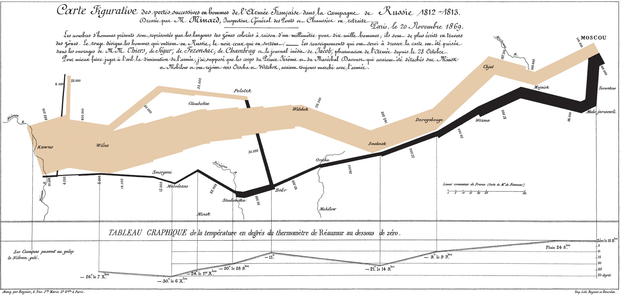 Charles Minard's 1869 chart showing the number of men in Napoleon’s 1812 Russian campaign army, their movements, as well as the temperature they encountered on the return path. Lithograph, 62 x 30 cm